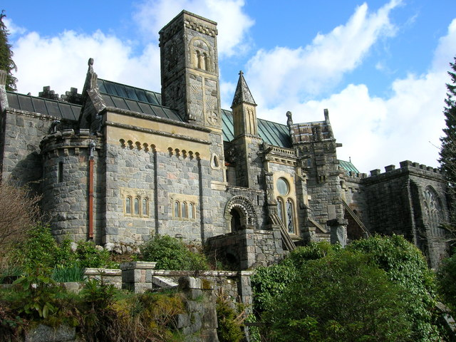 St Conan's Church, Lochawe